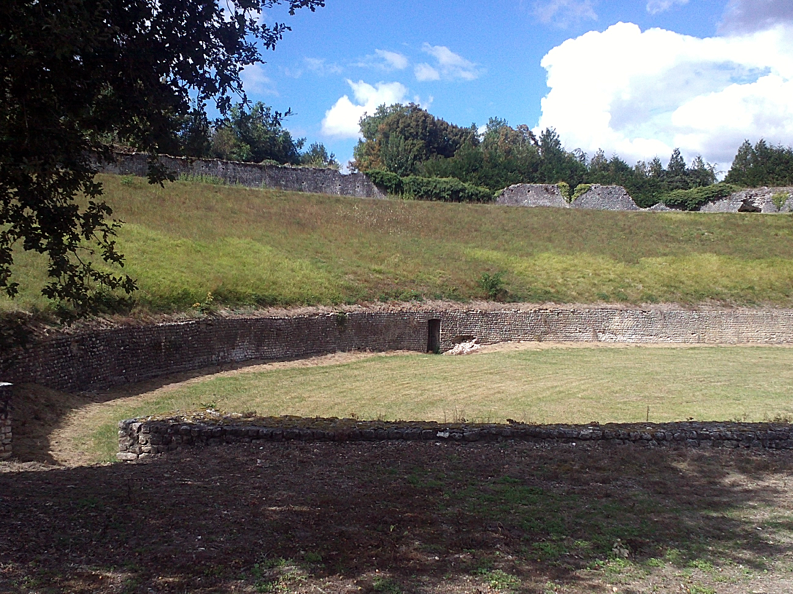 This antique rural amphitheatre, known as amphitheatre de Chenevières, was part of an extended thermal site with thermae, temple and fanum at Craon near Montbouy, Loiret, France.